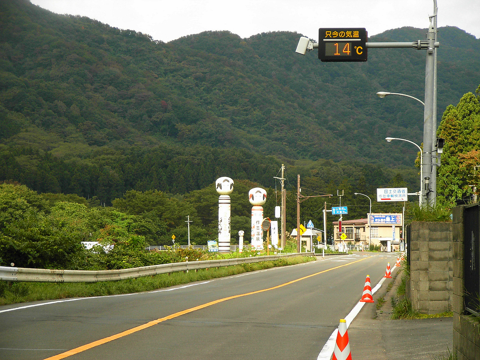 Route 48 (National Highway 48) of Japan. Sendai, Miyagi prefecture, Japan. Place - Sakunami, Aoba ward, Sendai, Miyagi prefecture, Japan. From the front of the Sakunami Vehicle Checkpost of the Ministry of Land Infrastructure and Transport, toward northwest. Date - October 20, 2005. Photographer - Kinori. Two large pillars are the invitation for Sakunami spa. Its shape is Kokeshi's one, traditional doll of the Tōhoku region.